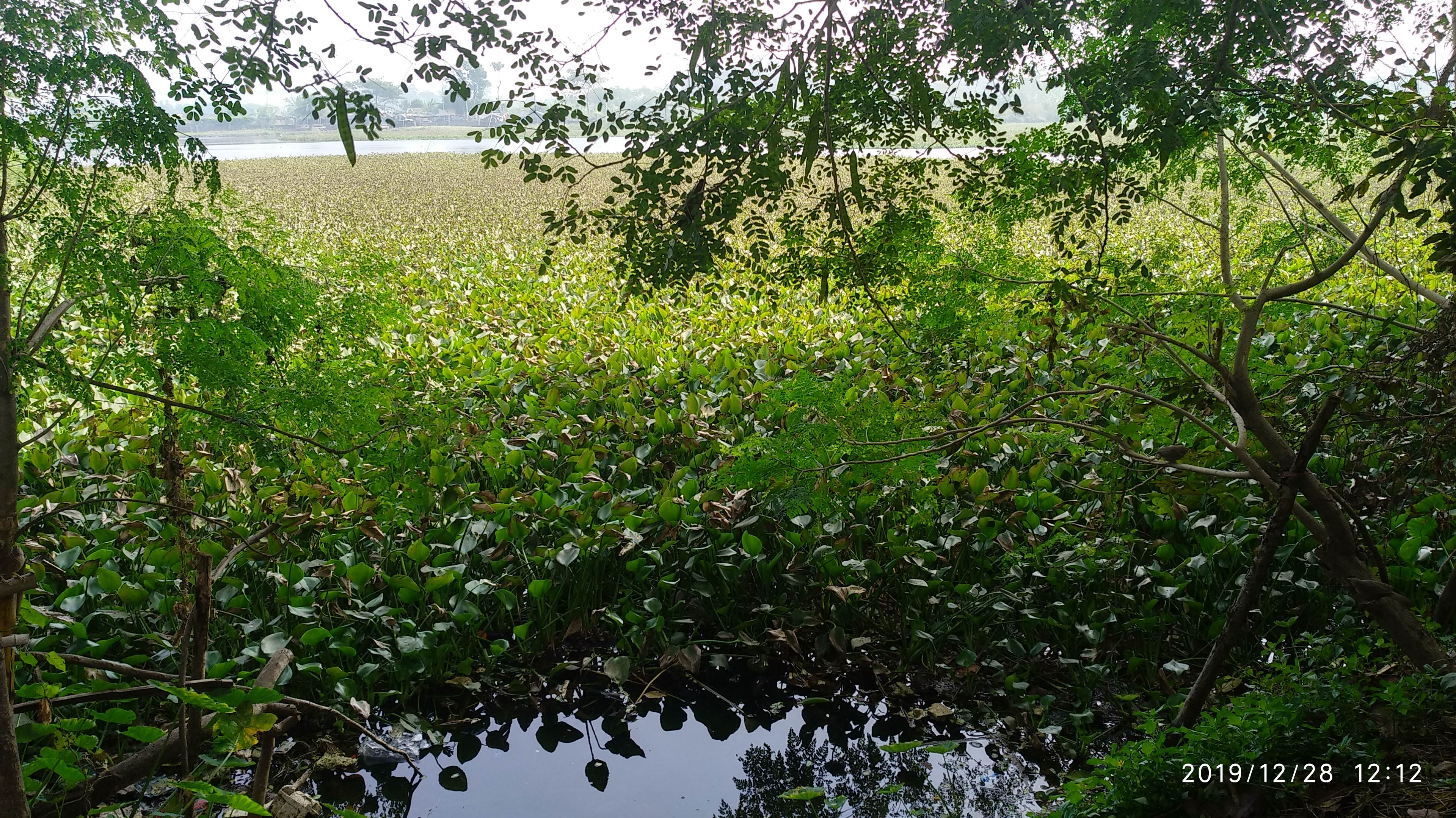 The natural pond reconstructed as a drainage solutions of the municipality area as well as for the leasing purpose for the fisheries has been completely stopped due to growing Water Hyacinth population which is blocking the sunlight from reaching the water level and blocking the growth of the flora and fauna of the pool. Gradually the pond became a huge liability of the authority as the annual cleaning costing it lakhs of rupees every year.